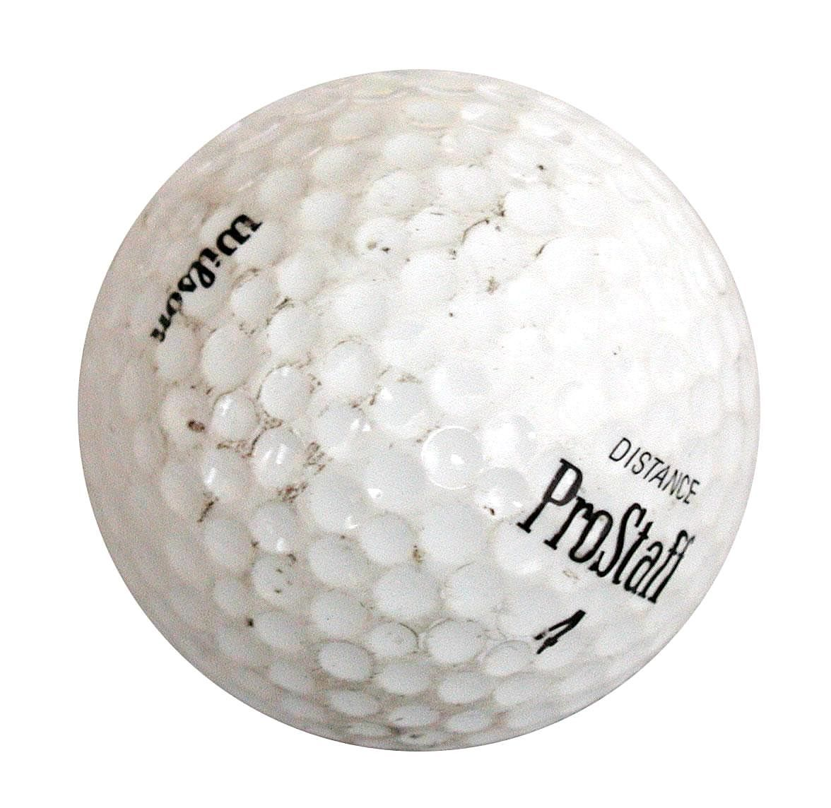 Image title: Golf ball Image from Public domain images website